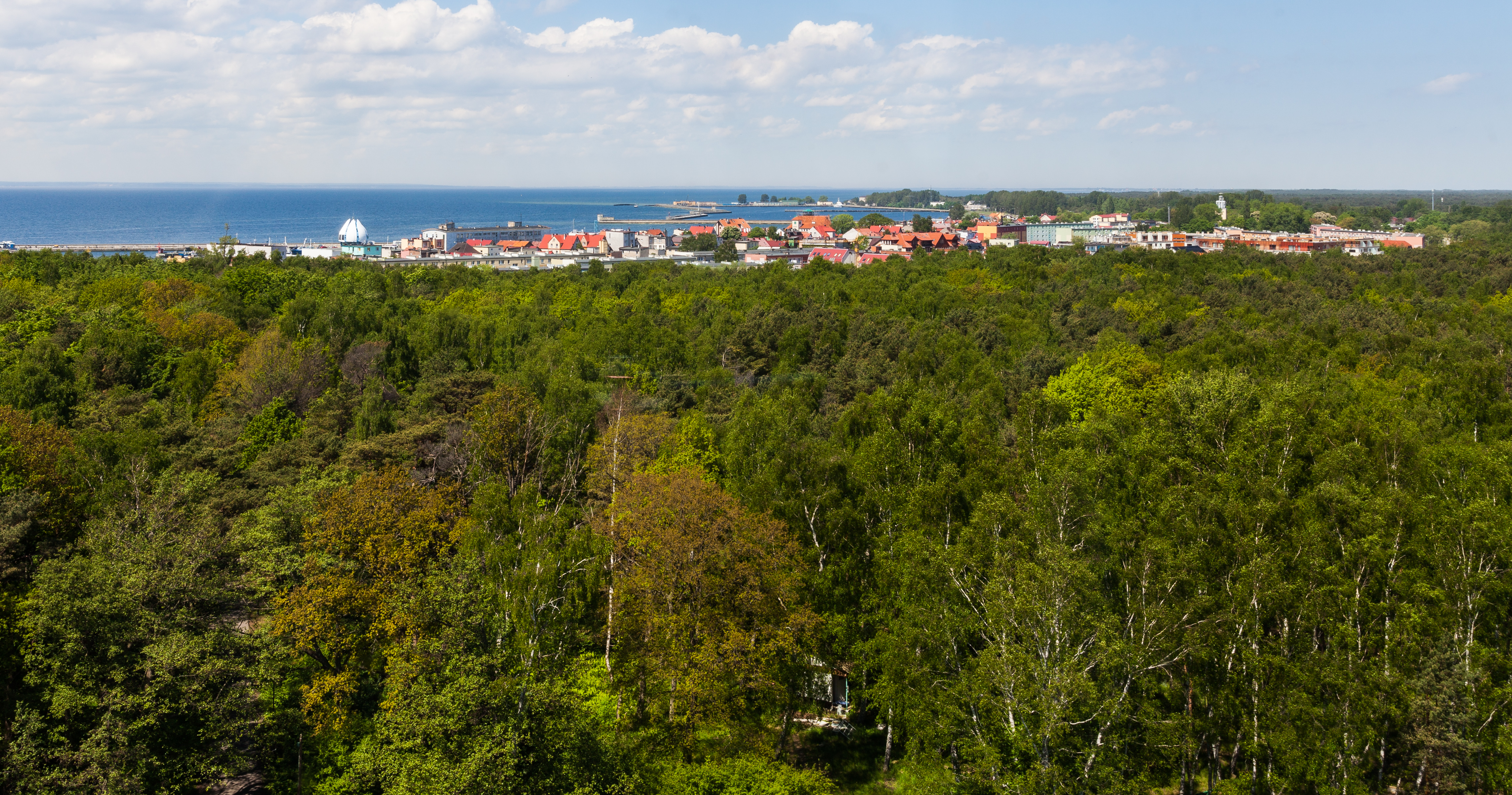 Vista de Hel desde su faro, Hel, Polonia